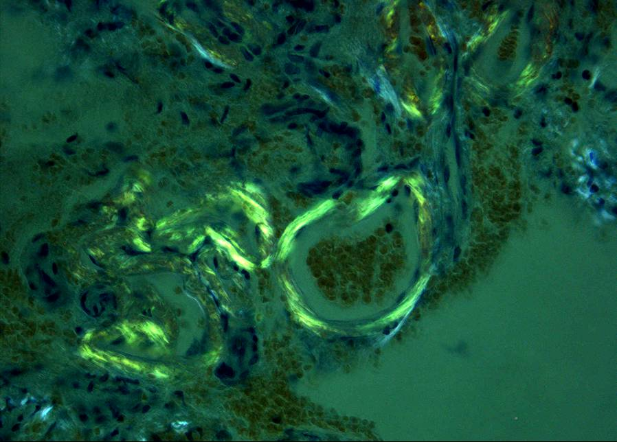 Histopathology of cerebral amyloid angiopathy. Deposition of amyloid in hyalinized vessel wall on congo-red staining and Birefringence in polarized light.